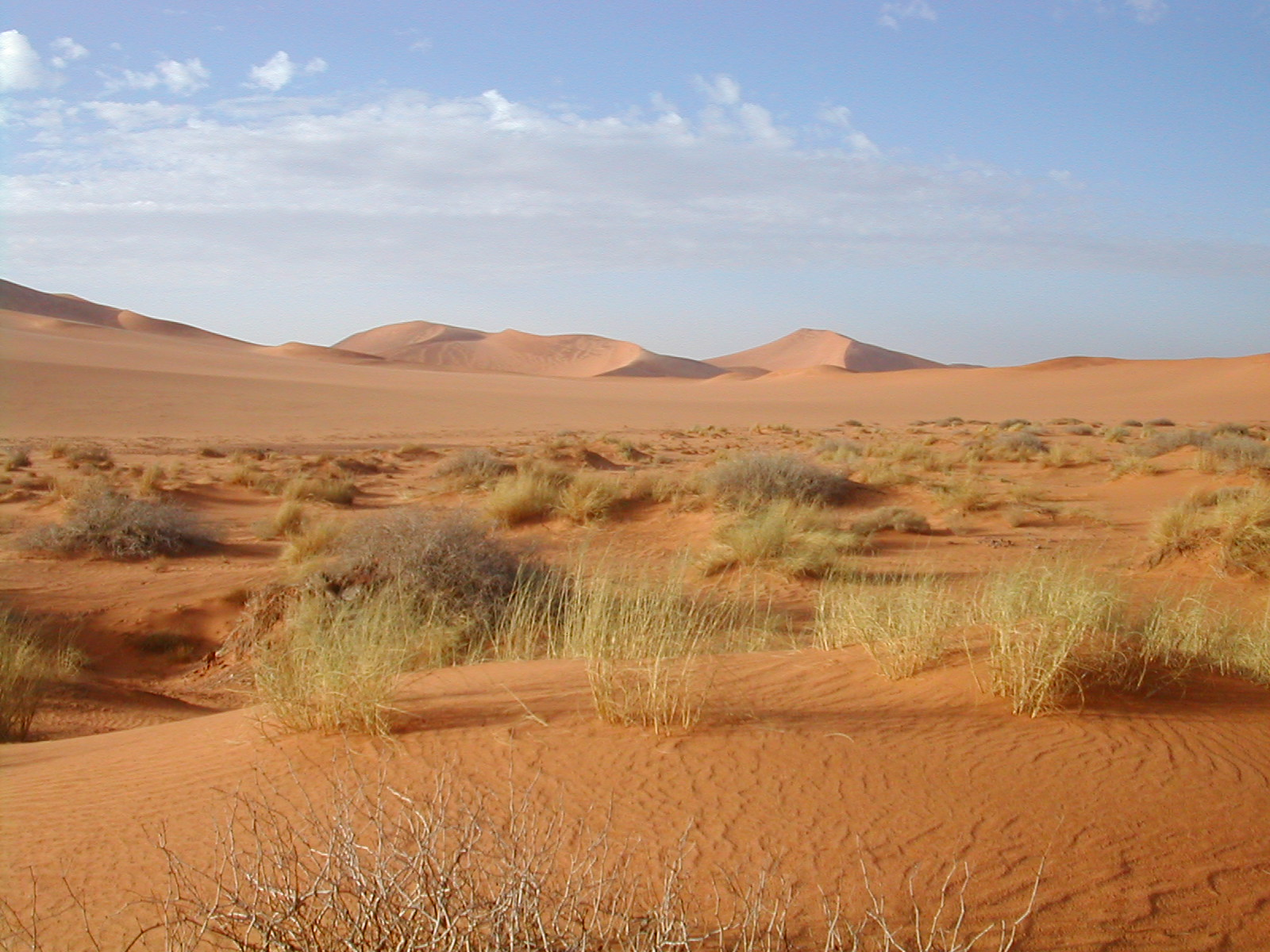 Location Algeria (near Tamanrasset)